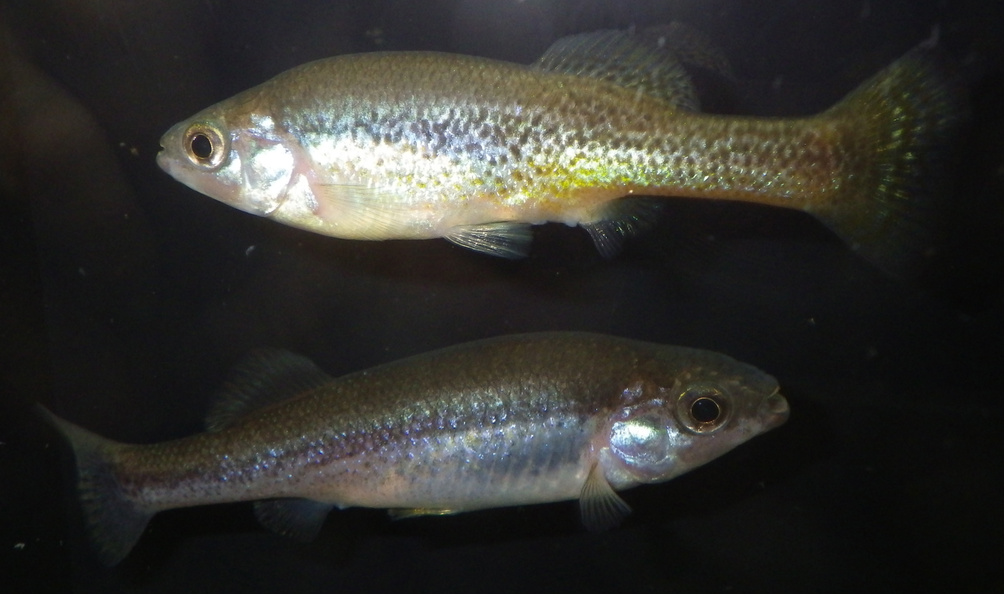 Pair of adult Ilyodon furcidens, male above